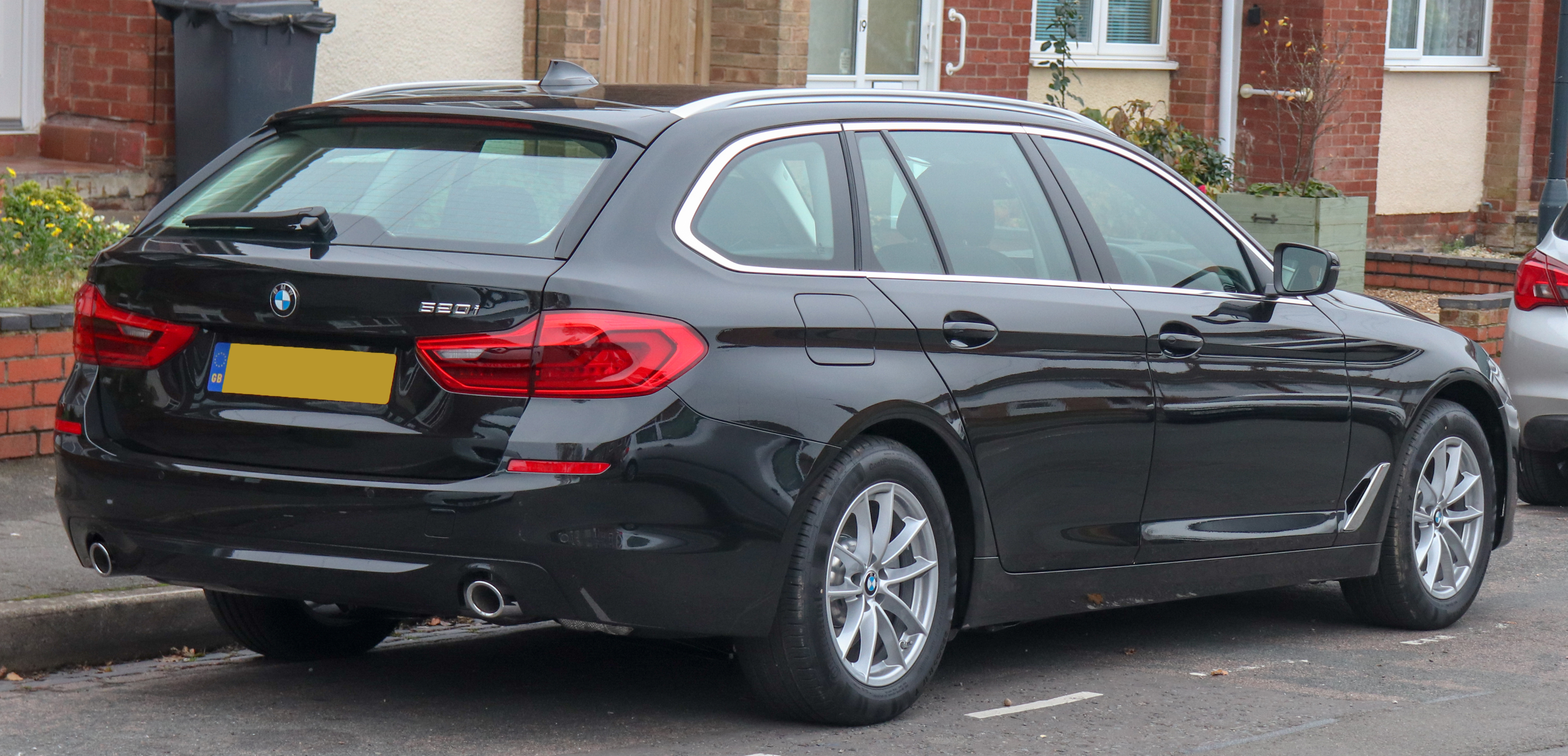 2018 BMW 520i SE Automatic Estate 2.0 Rear Taken in Warwick